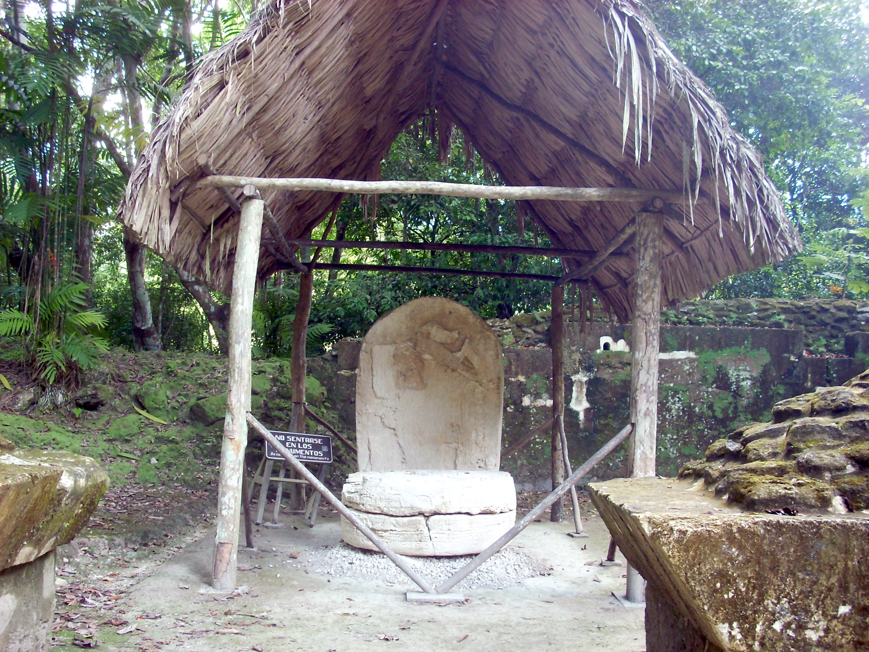 Stela 19 and Altar 6 in the northern enclosure of Group R, a twin pyramid complex at Tikal, Peten, Guatemala. Dated to AD 790.